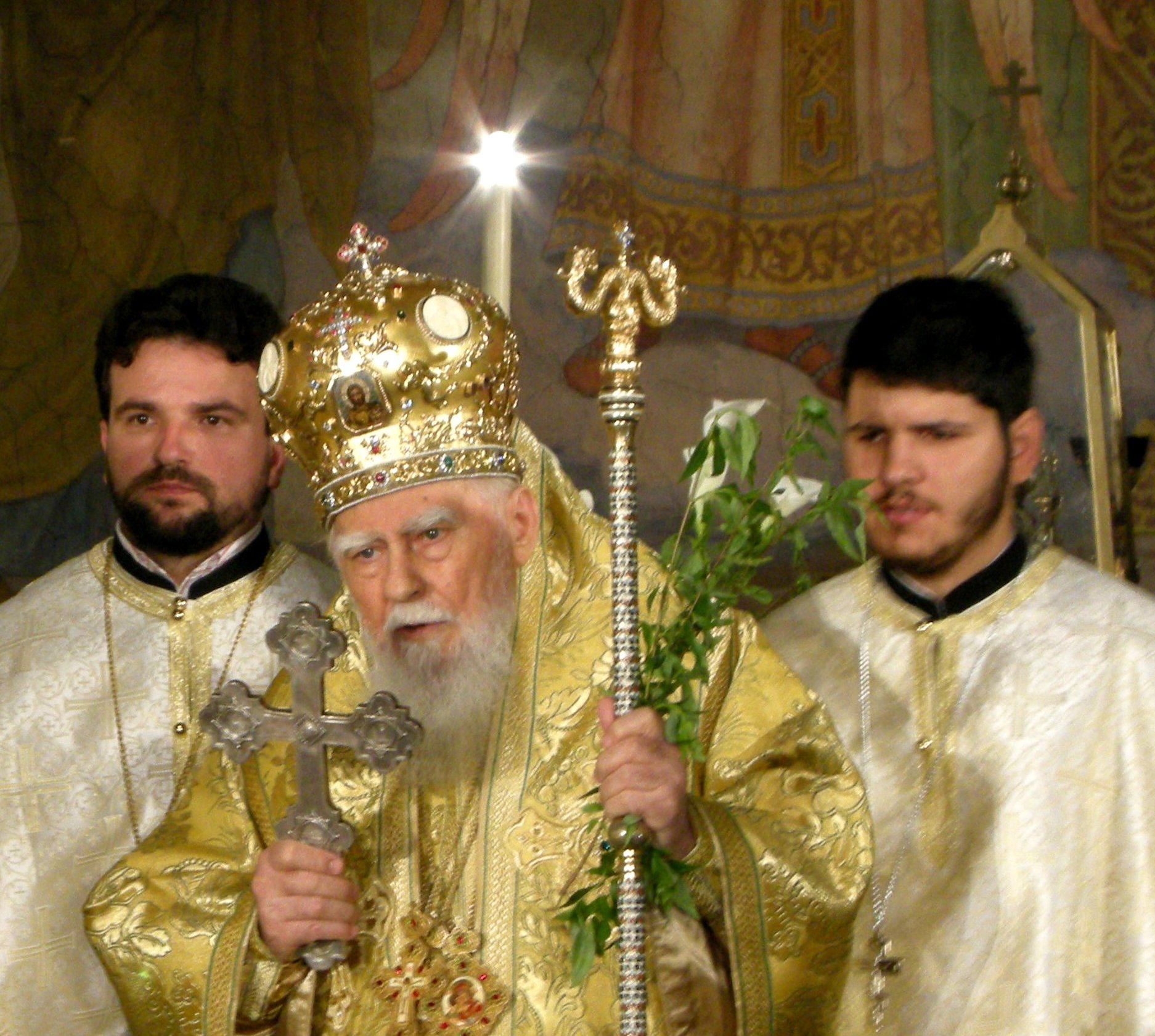 Maxim - His Holiness, the Metropolitan of Sofia and Patriarch of All Bulgaria.